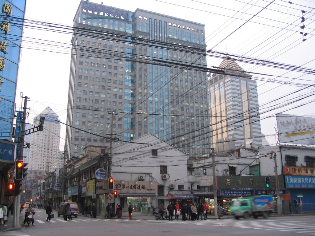 福州路-河南中路-西藏中路方向 Fuzhou Road, Henan Road. Compare with this 2013 image of the same location